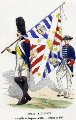 Uniform of a Sergeant in 1757 after formation, and a grenadier colour-bearer in 1789, just before the revolution.